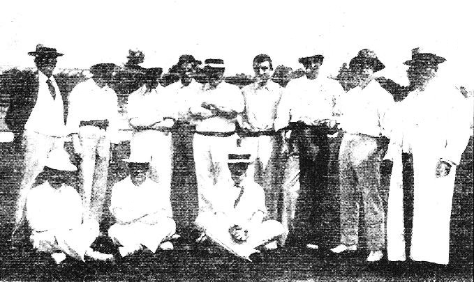 Cricket team of the USFSA at the 1900 Olympic Games (Timothée Jordan, Arthur Schneidau, Robert Horne, Henry Terry, F. Roques, William Anderson, Douglas Robinson, William Attrill, W. Browning, Arthur McEvoy, Philip Tomalin -c-, J. Braid) photography, reproduction, no restrictions on use